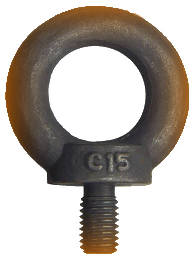 Ringschraube DIN 580